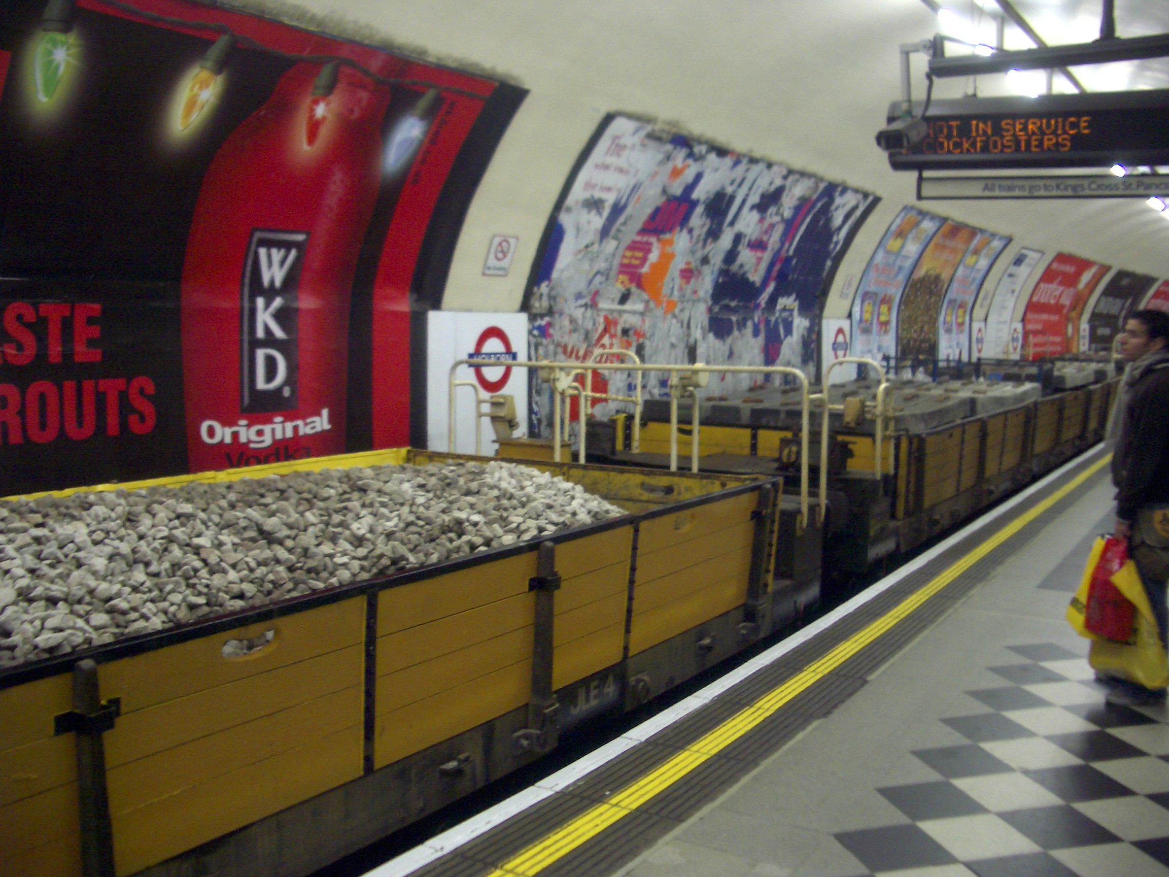 A cargo train at Holborn tube station (Piccadilly line northbound)